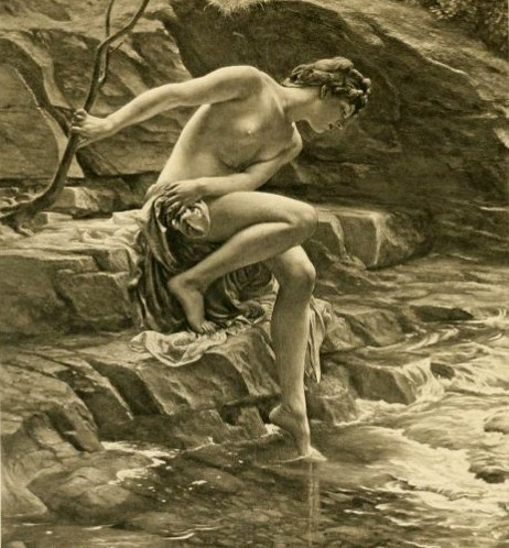 The Nymph's Bathing Place, detail